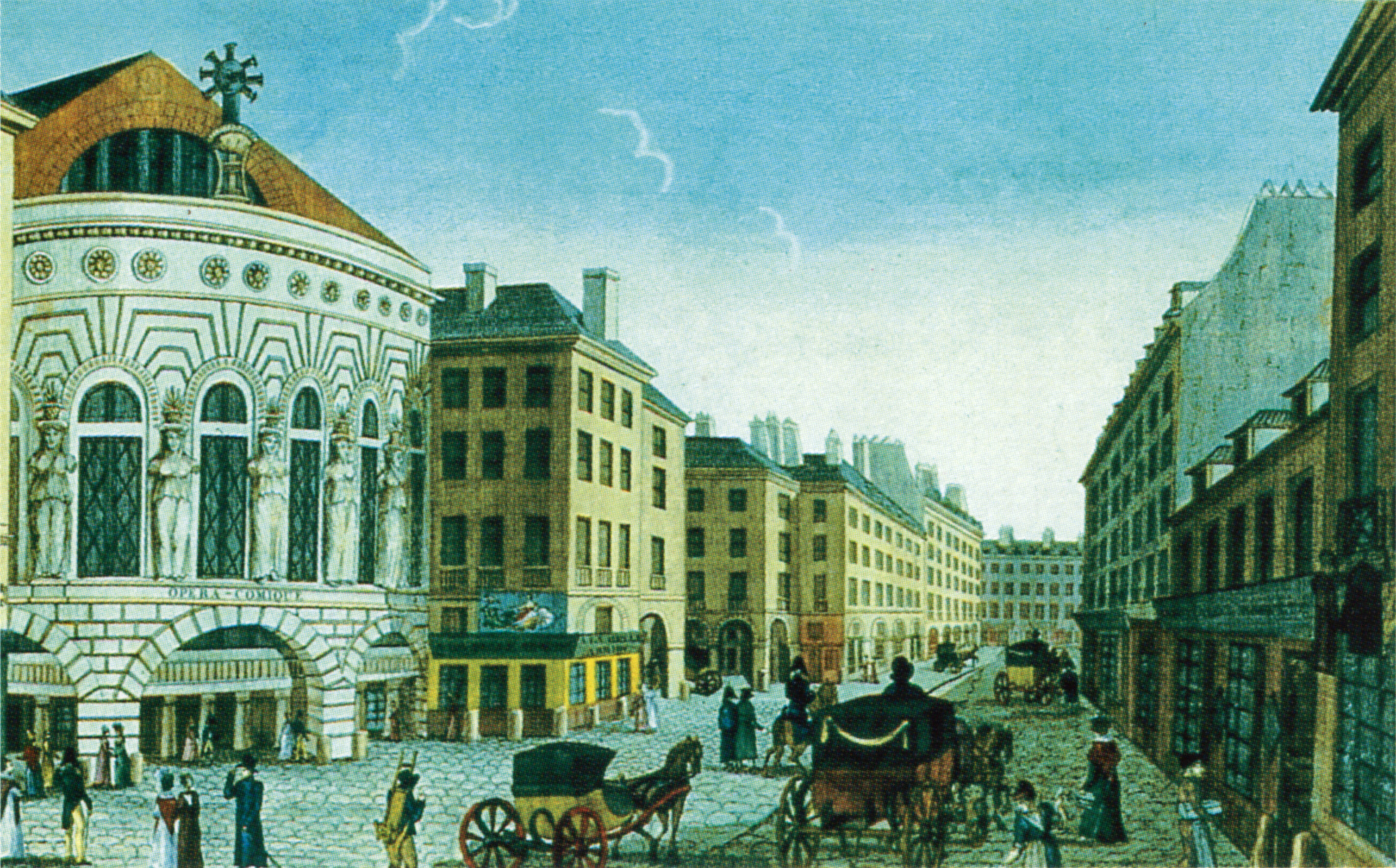 The Salle Feydeau on the rue Feydeau in Paris, at a time when it was being used by the Opéra-Comique (1801–1829)